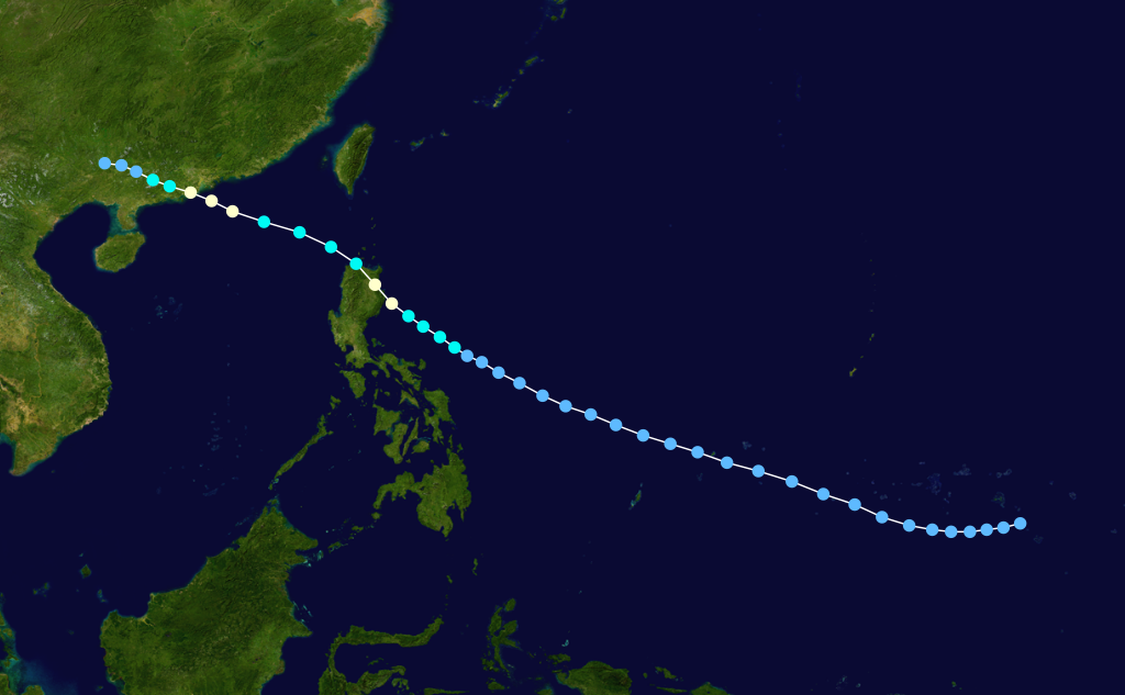 Typhoon Brendan 1991 track. Uses the color scheme from the Saffir-Simpson Hurricane Scale.